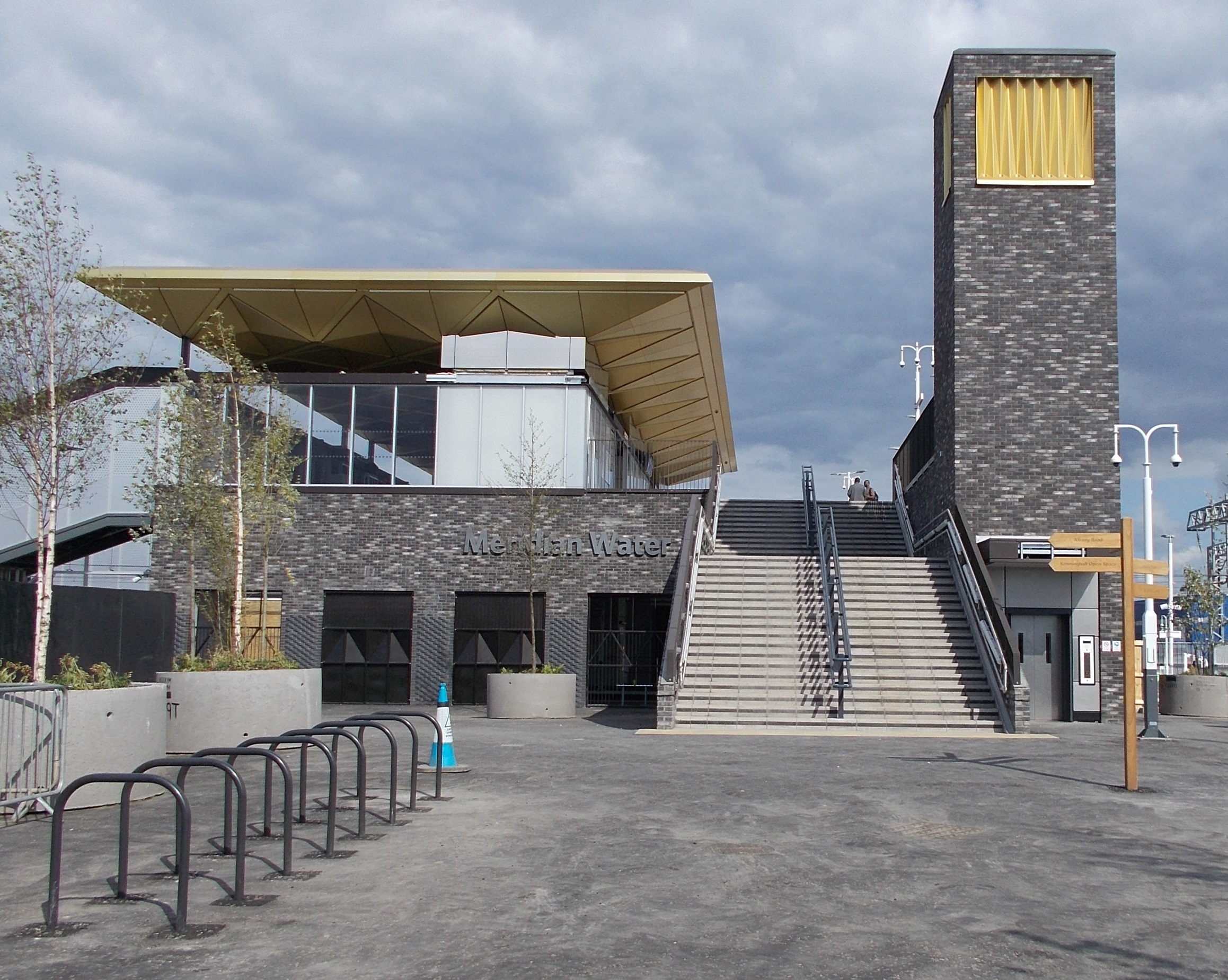 Meridian Water station western entrance, on day of opening, 3rd June 2019